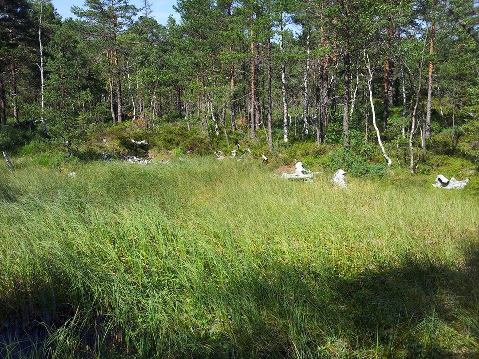 Crash site for the Short Stirling Mk.IV – LK 332 at Vierli in Aust-Agder Norway